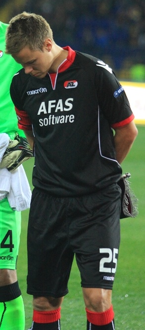 Niklas Moisander as a player of AZ